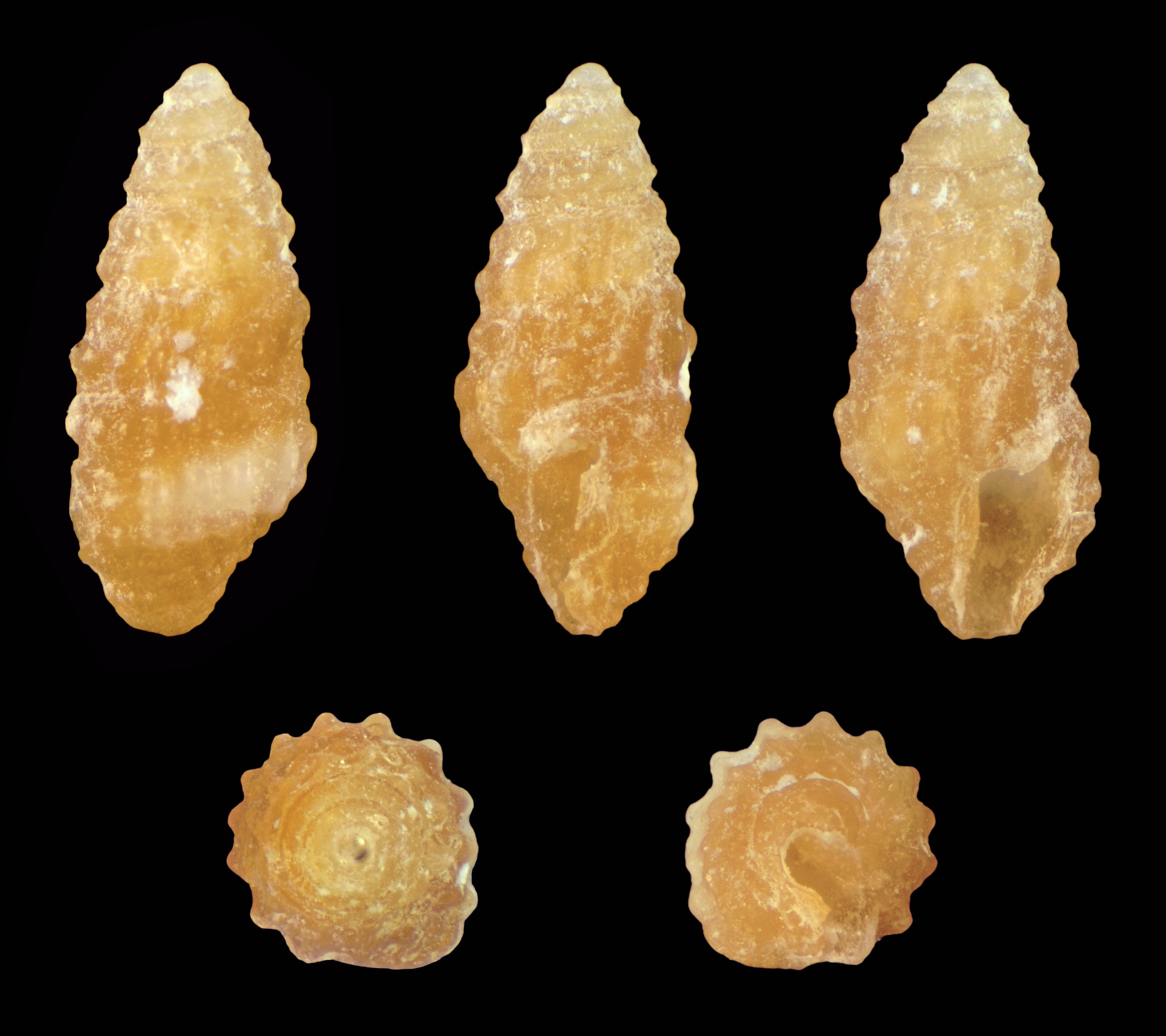 Carinapex minutissima (Garrett, 1873); Length 0.23 cm; Originating from Originating from Panglao Island, Bohol, Philippines. Shell of own collection, therefore not geocoded.